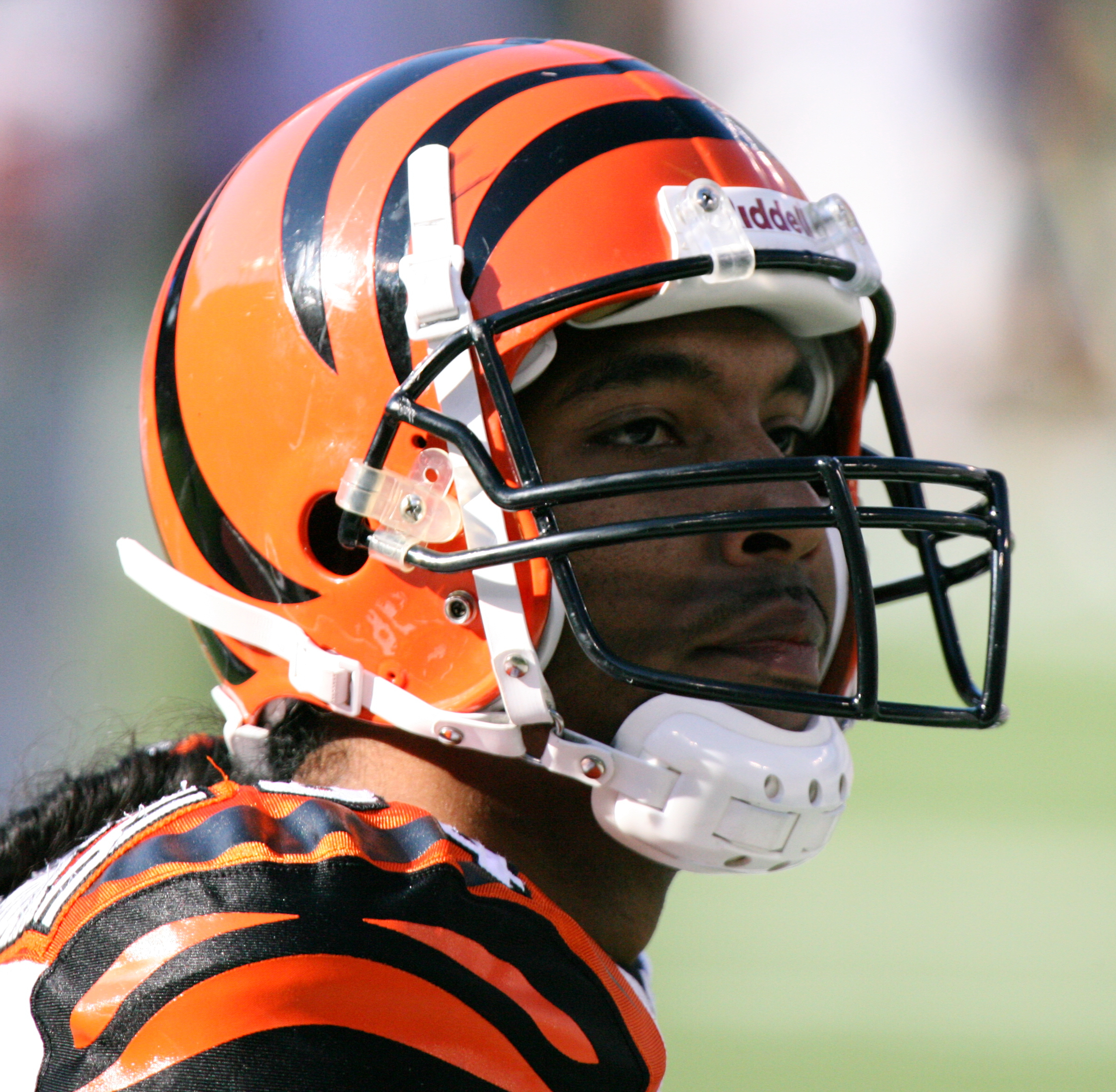 T. J. Houshmandzadeh.